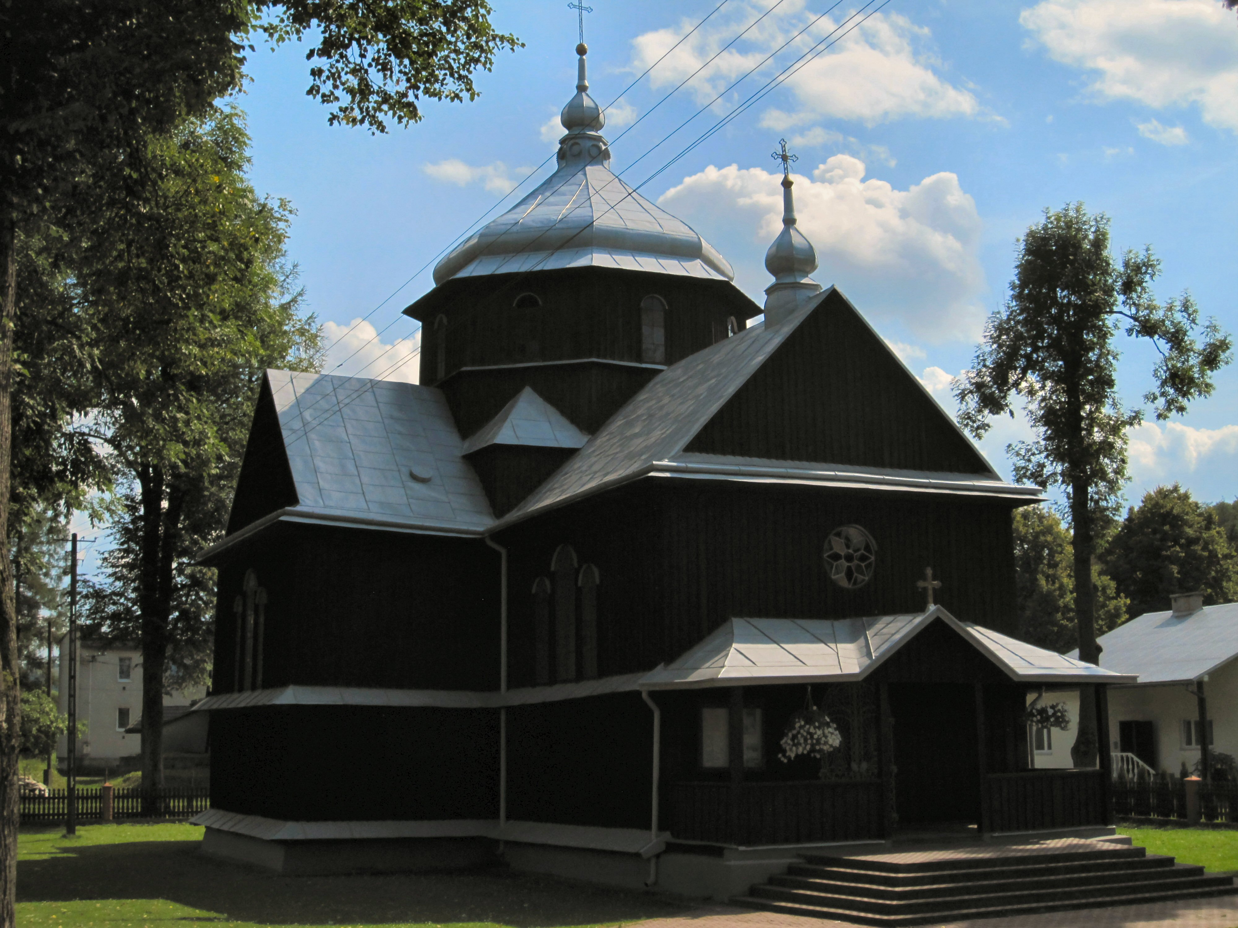 Greek Catholic church in Wojtkowa village